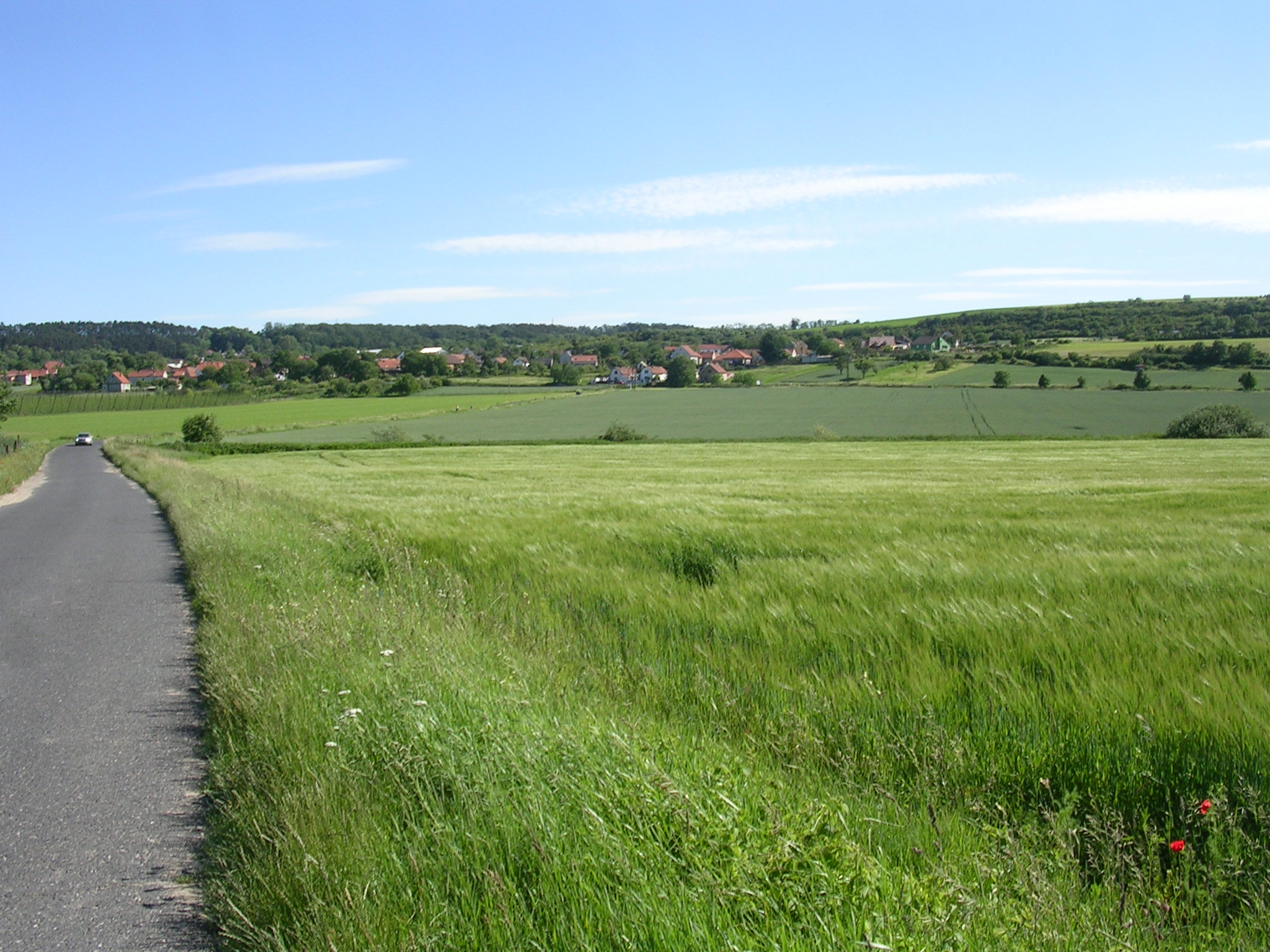 Bechlín, Litoměřice District, the Czech Republic.